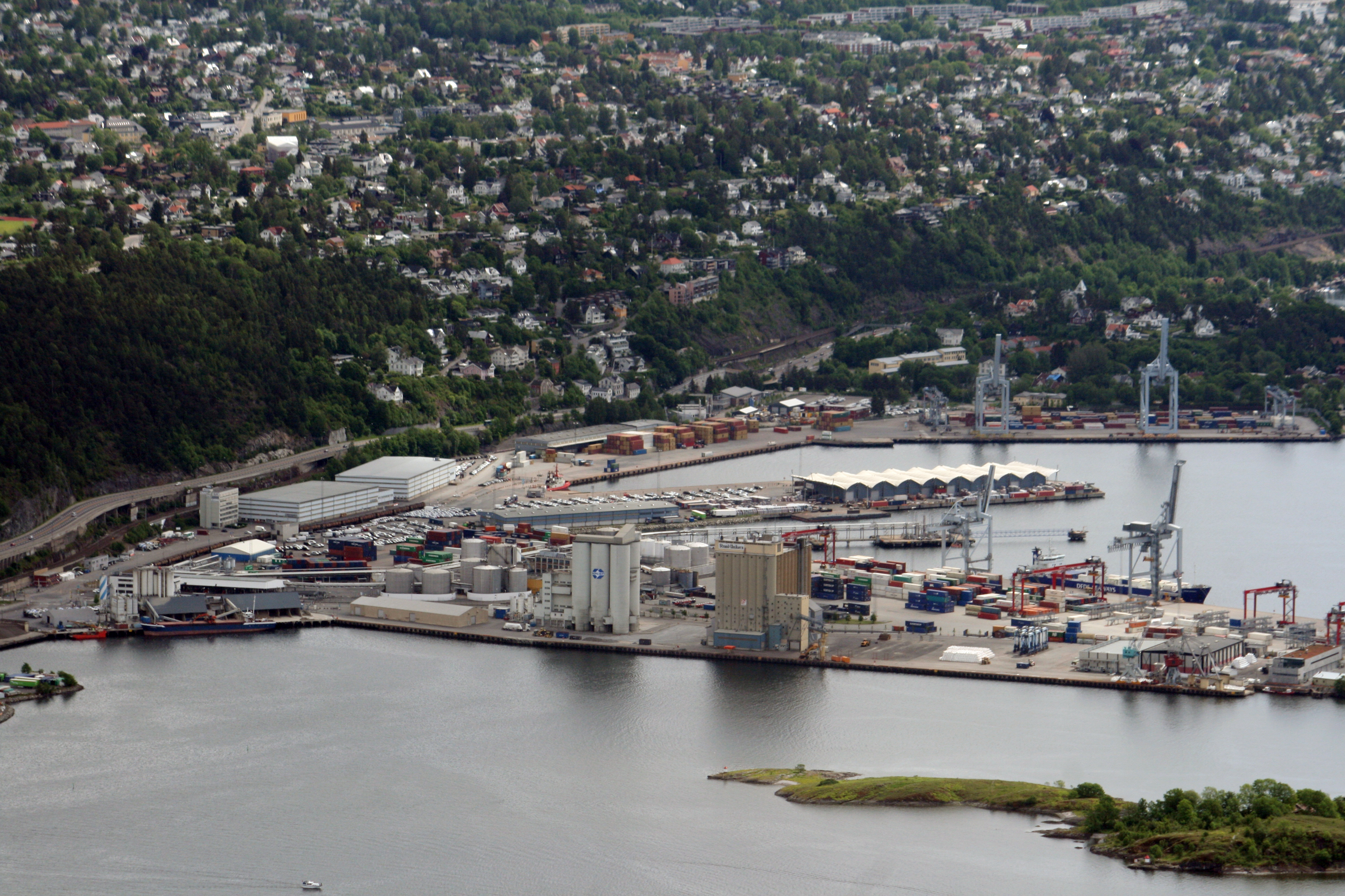 Aerial photograph from June 14th, 2015.